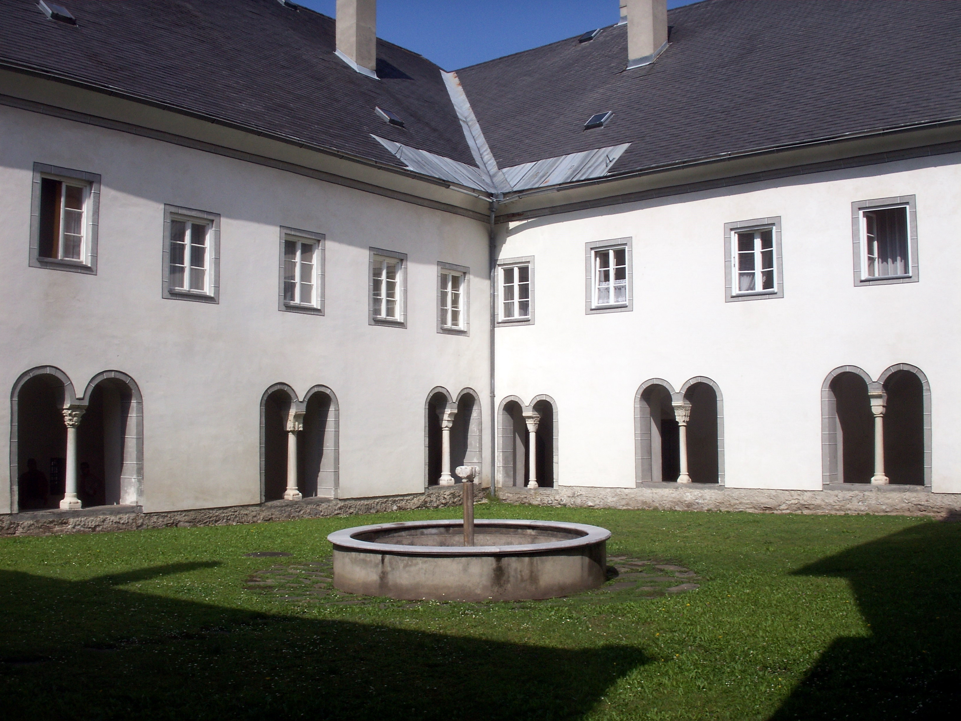 Romanesque cloister of Millstatt Abbey near Spittal an der Drau / Carinthia / Austria / EU. Corner south-west, cloistered courtyard, well.